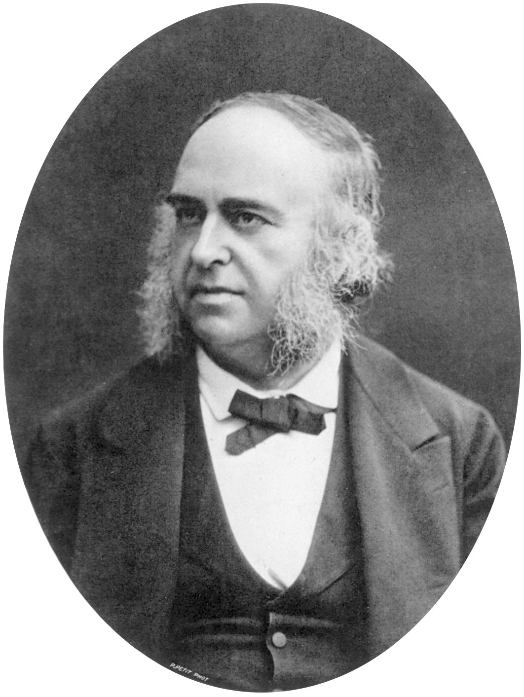 Paul Broca, scientist